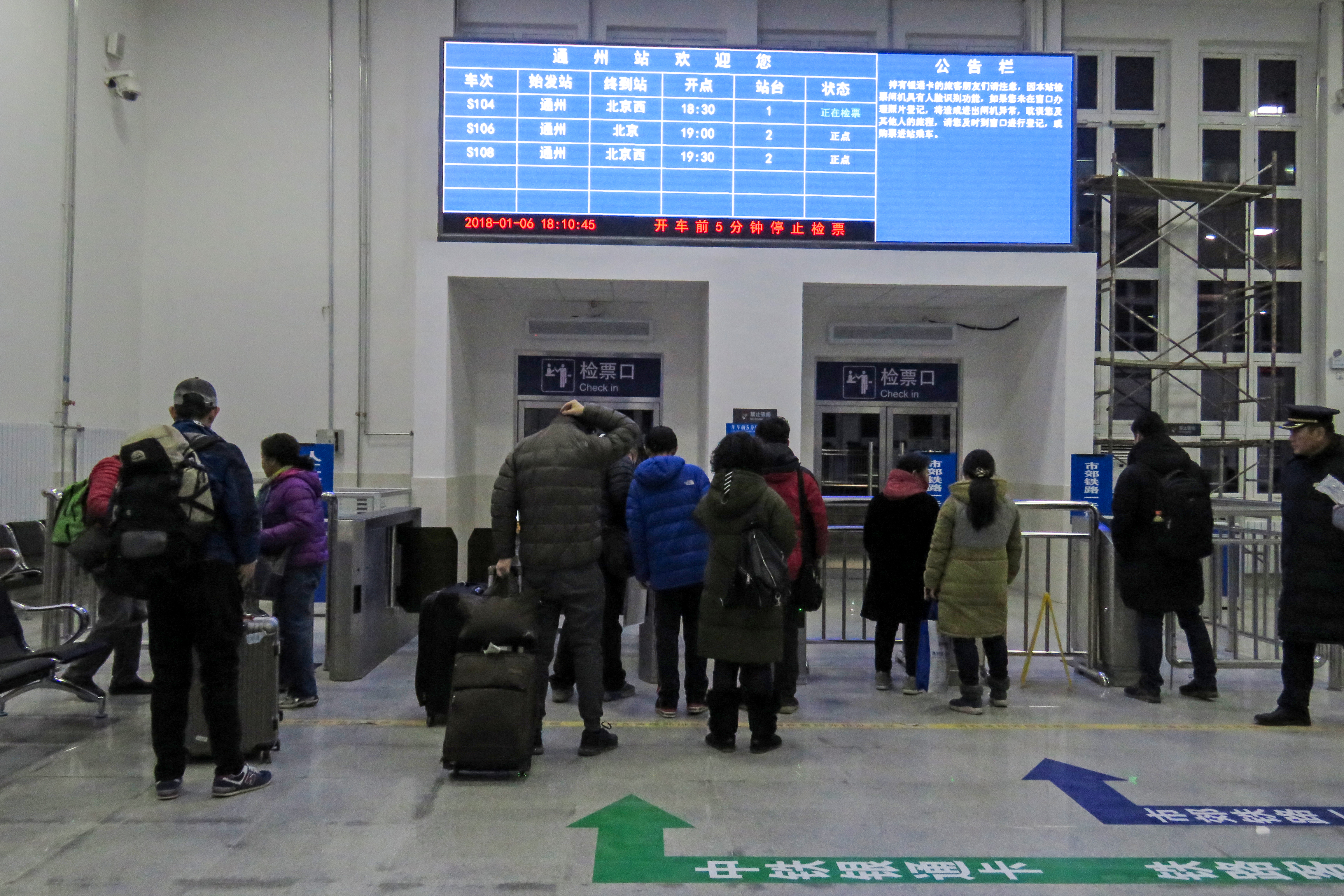 Boarding of S104 has started. Passengers here are mostly trying their "first taste" of this new service.